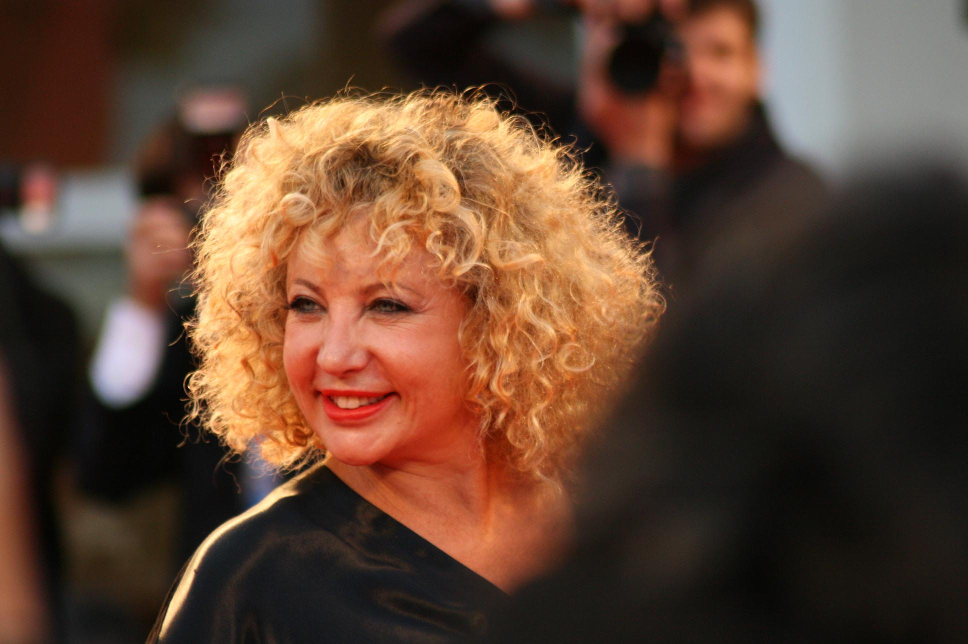 Iaia Forte at 71ª mostra internazionale d'arte cinematografica di Venezia, 2014